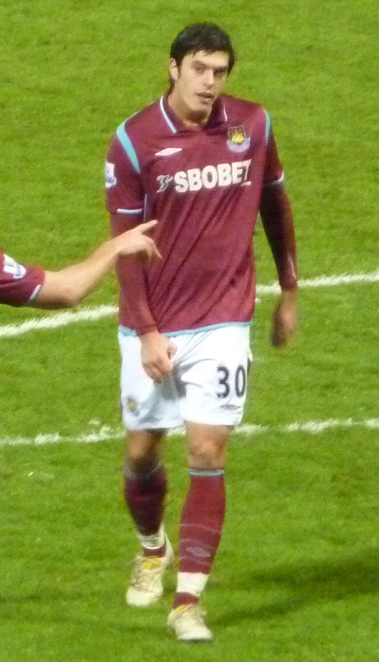 James Tomkins